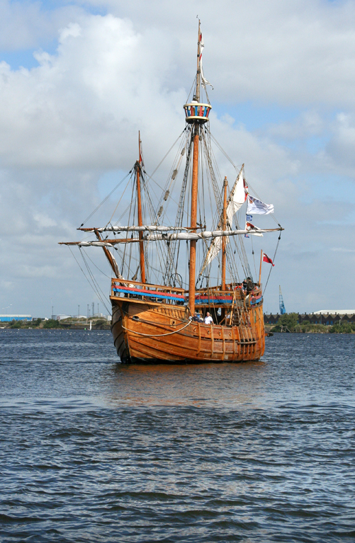 The tall ship 'Mathew' cruising in Cardiff Bay. Normaly based at Bristol, she was visiting for the Cardiff Harbour Festival.